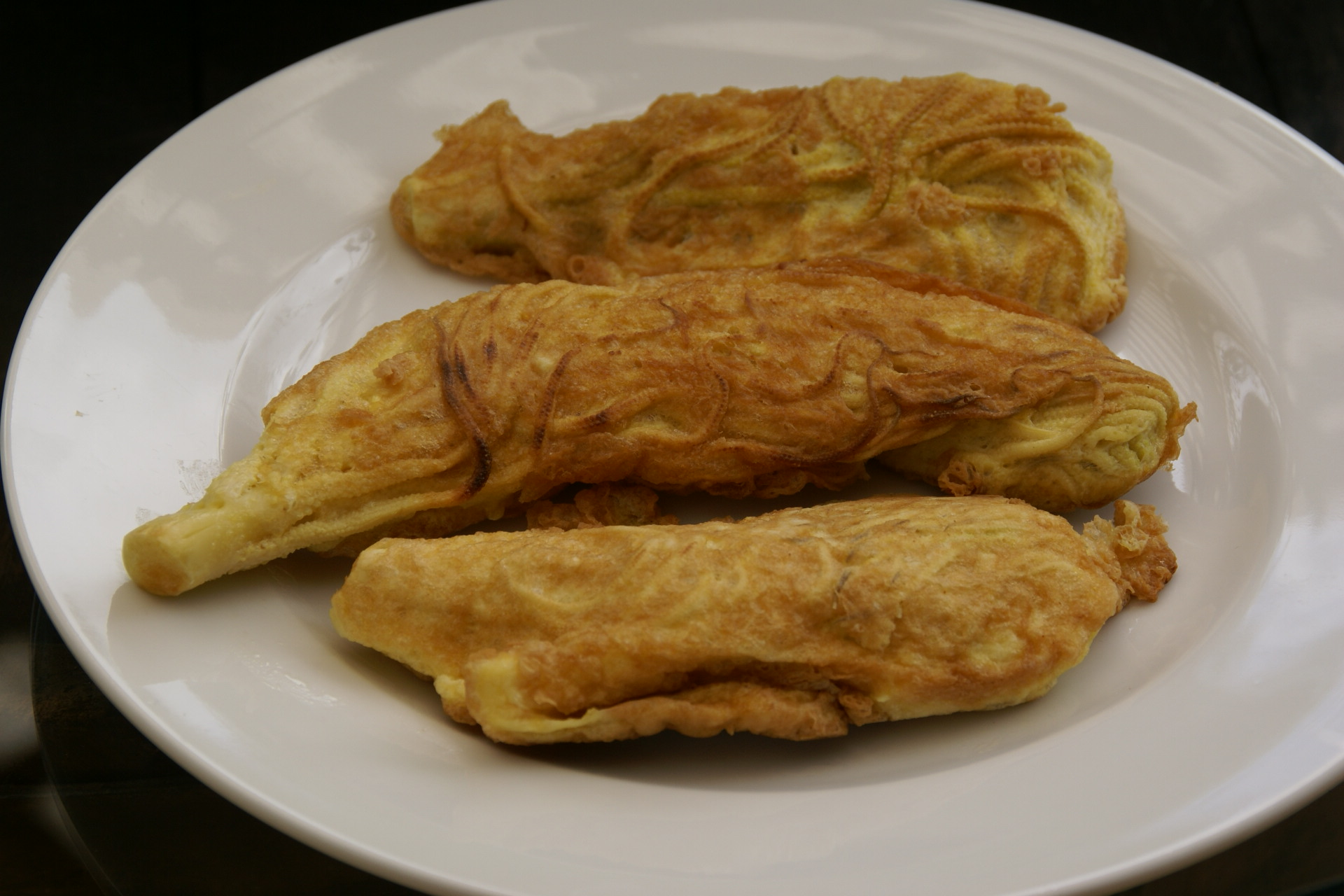 Flower of pacaya-palm (chamedorea tepejilote) prepared in egg